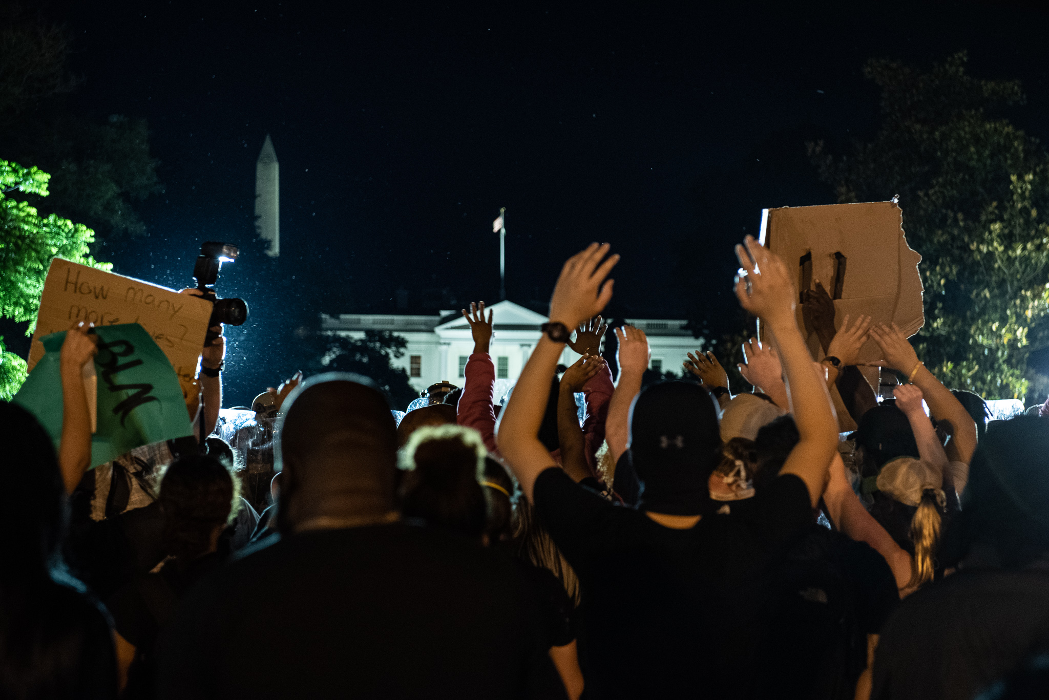 George Floyd protesters confront riot control outside of Lafayette Square on H St.